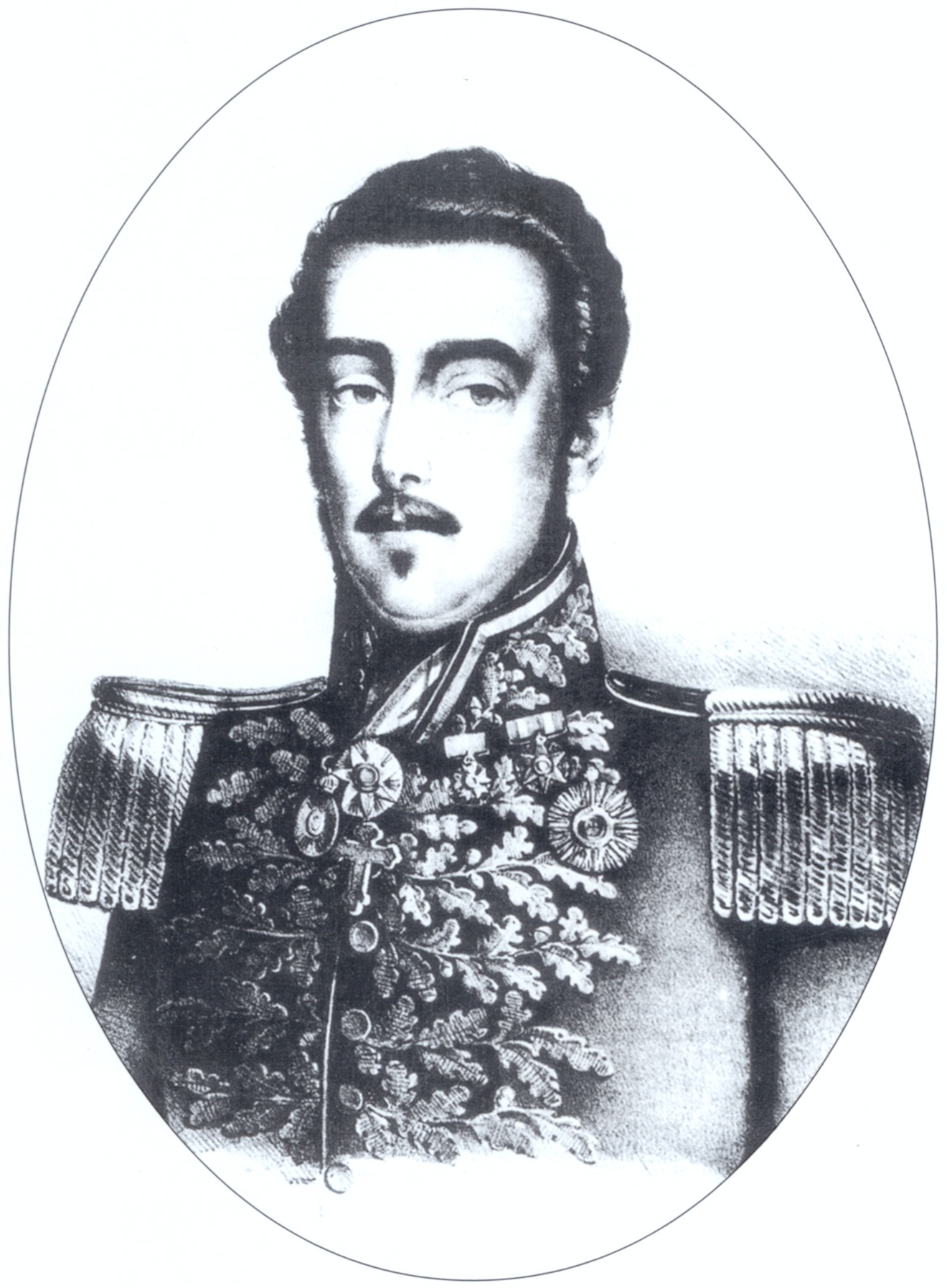 Luís Alves de Lima e Silva, then Baron of Caxias, c.1842